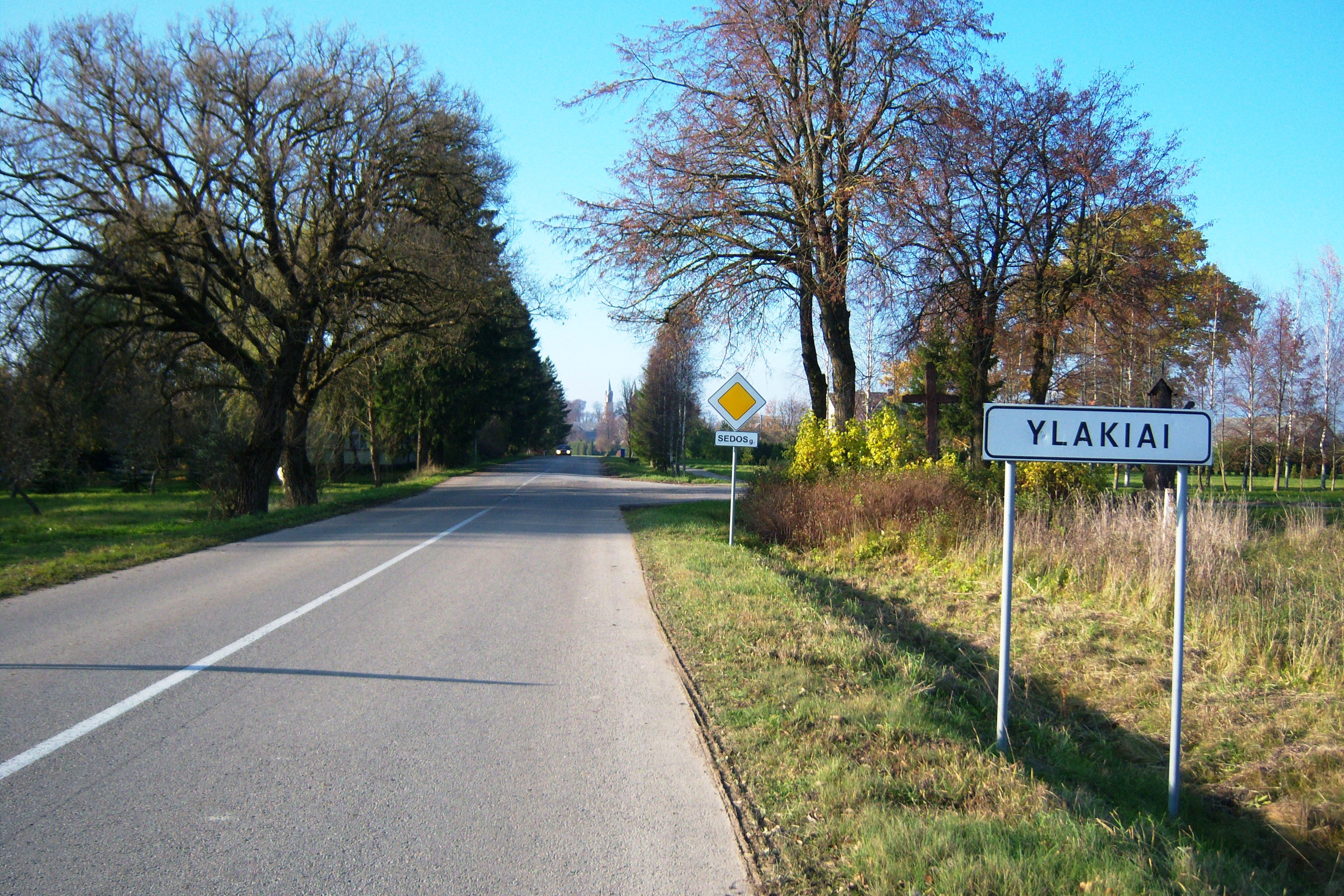 Ylakiai, entry, Skuodas District. Lithuania